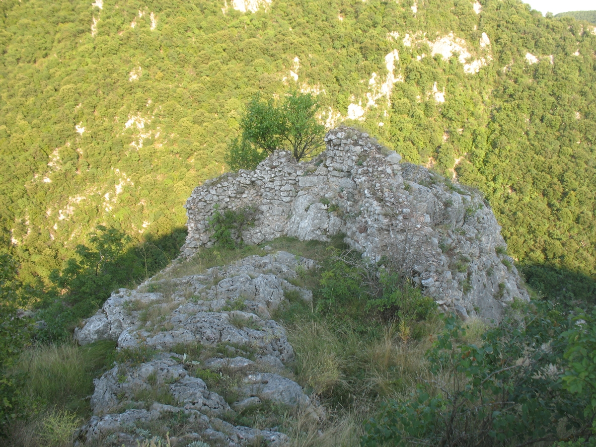 Tower above Crnica gorge in Petrus fortress near Paraćin,Serbia.